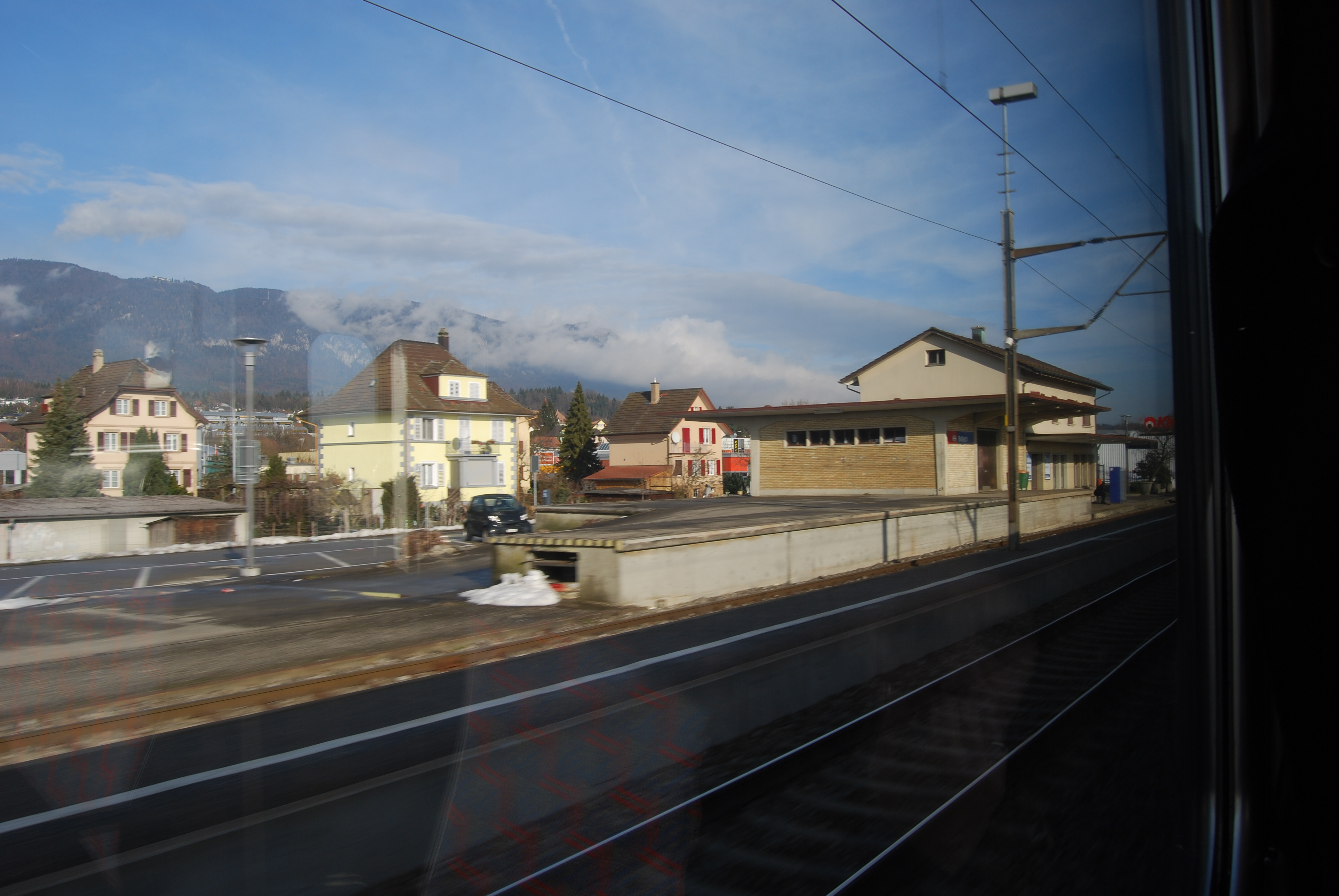 Train station of Bellach, canton of Solothurn, Switzerland